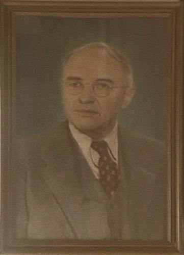 Portrait of Professor Emil Truog, University of Wisconsin-Madison Soil Science Department Chair, 1939-1954